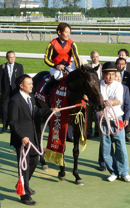 Rose-Kingdom20111009